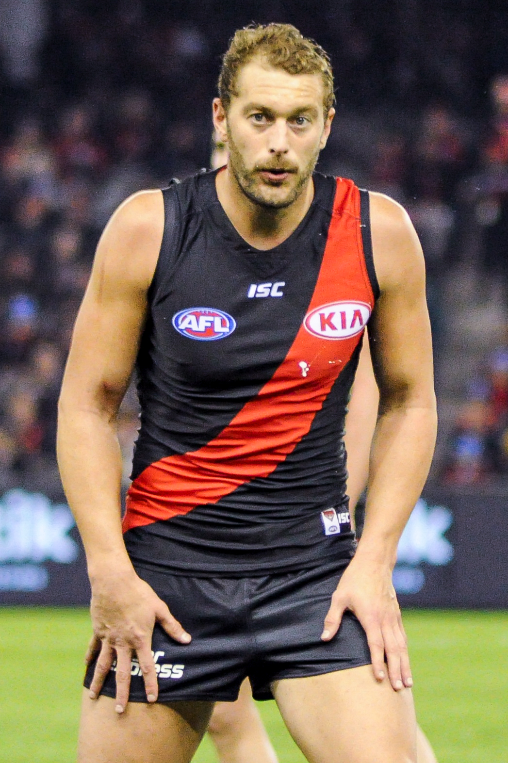 Tom Bellchambers during the AFL round twelve match between Essendon and Port Adelaide on 10 June 2017 at Etihad Stadium in Melbourne, Victoria.